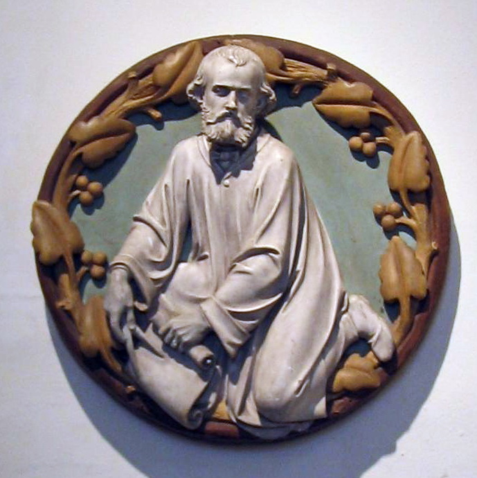 Portrait of Pierre Cuypers, kneeling, with compass and scroll. Plaster cast of a keystone used in the Sint-Martinuskerk in Maastricht, built in 1857-1858 by Cuypers.